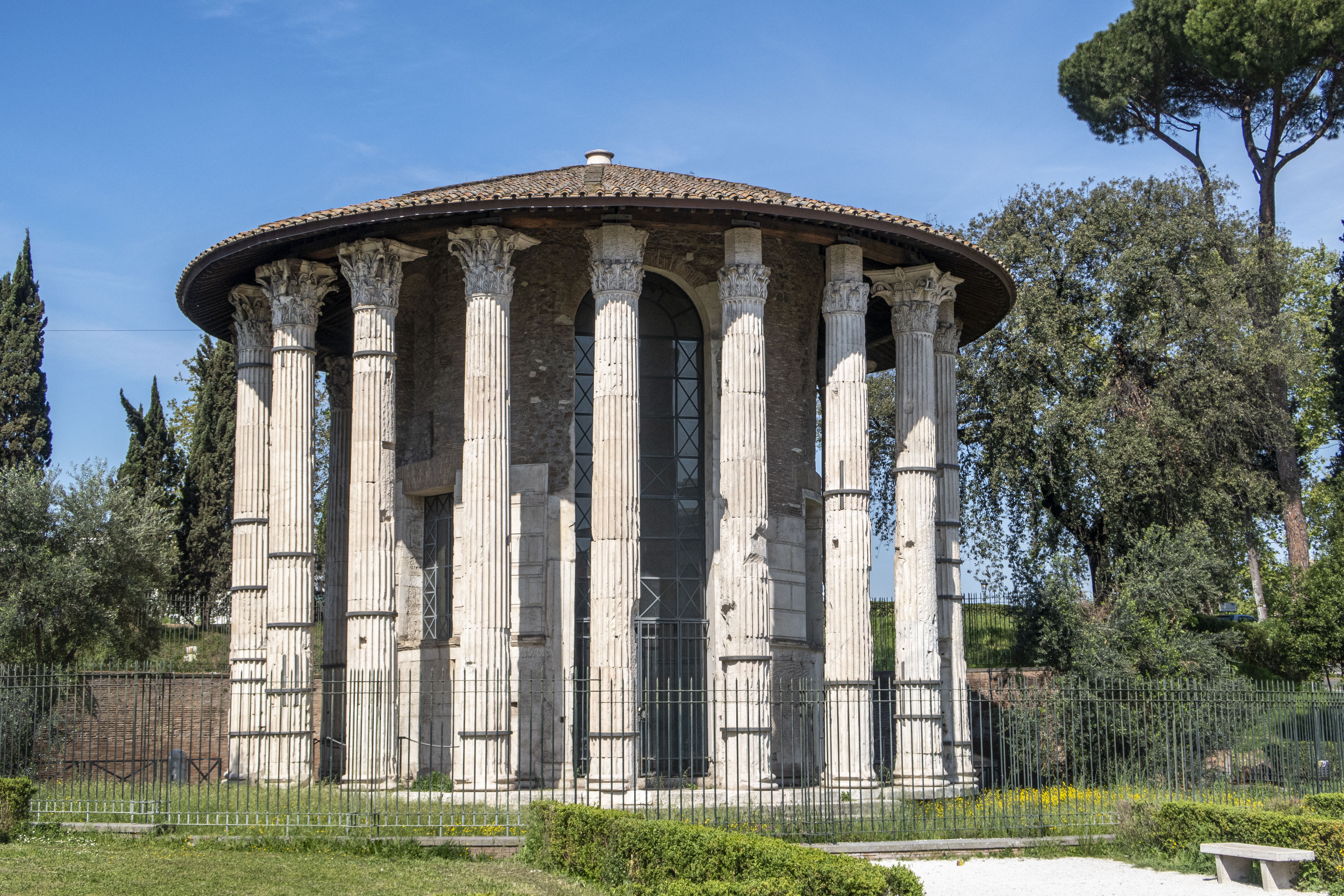 Personal photo of the Temple of Hercules Victor taken in April 2019 around the Easter holiday. Beautiful day in Rome without the blatant signs of modernity.